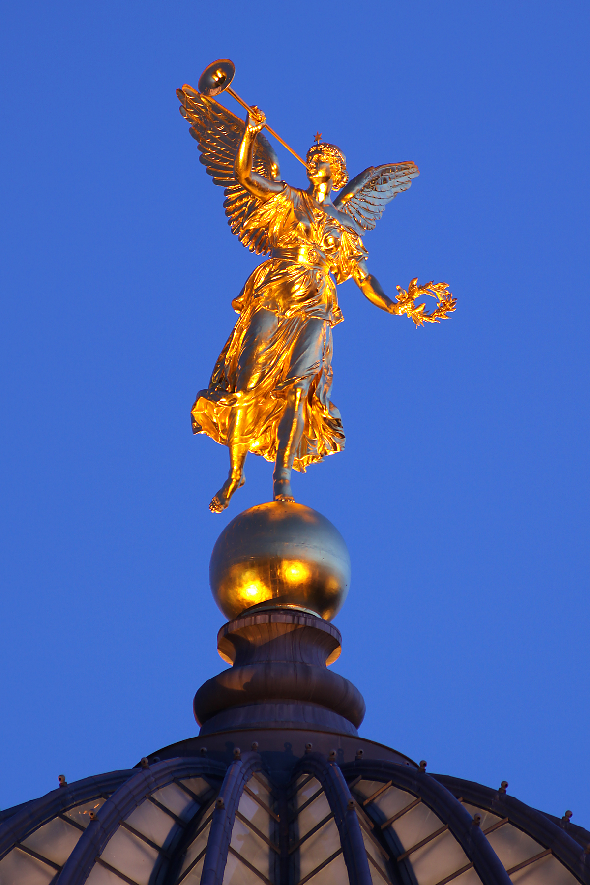 Sculpture of Pheme on roof of the University of Visual Arts in Dresden, Germany